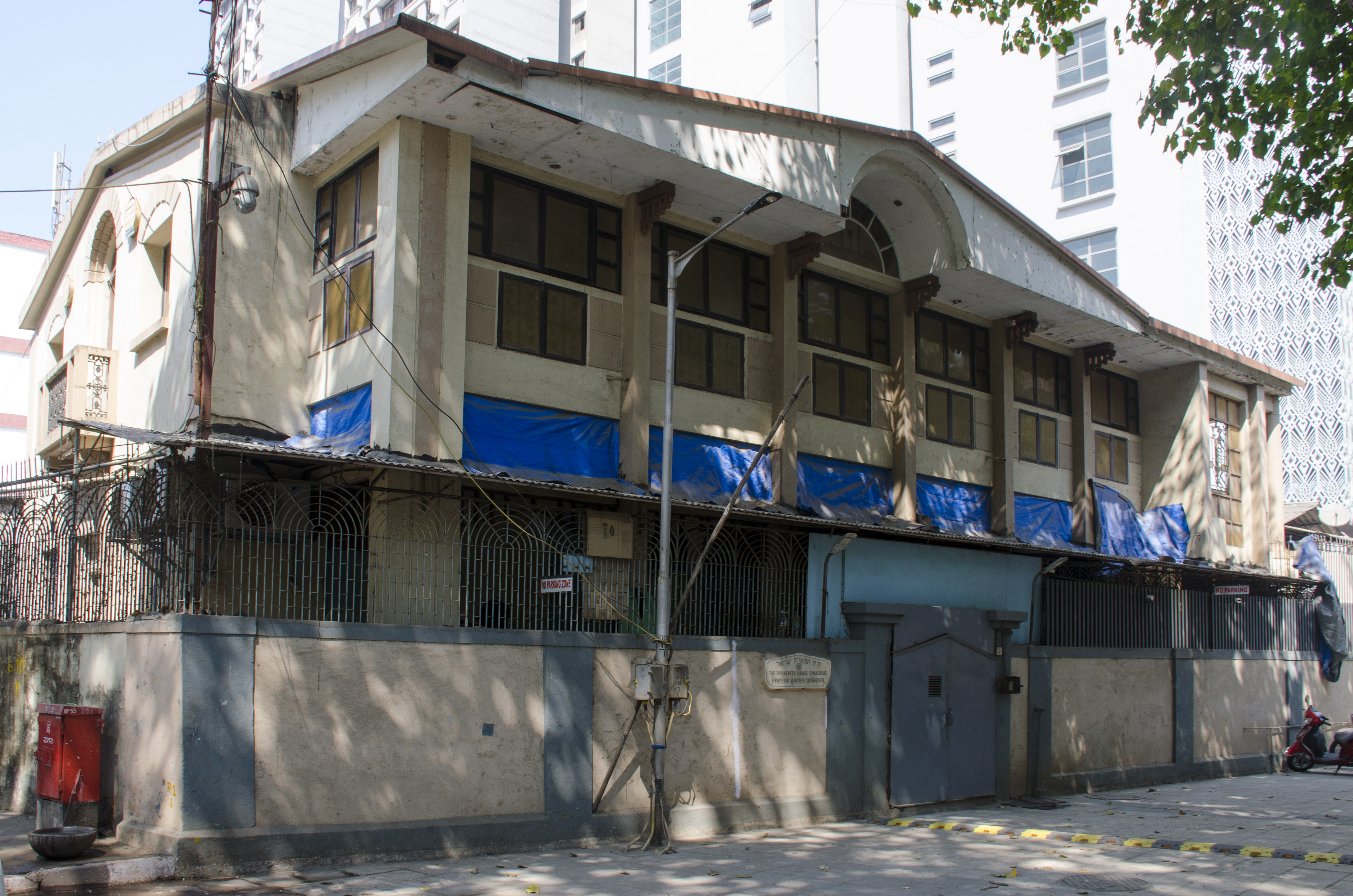 Tiphearth Isreal Synagogue, Mumbai